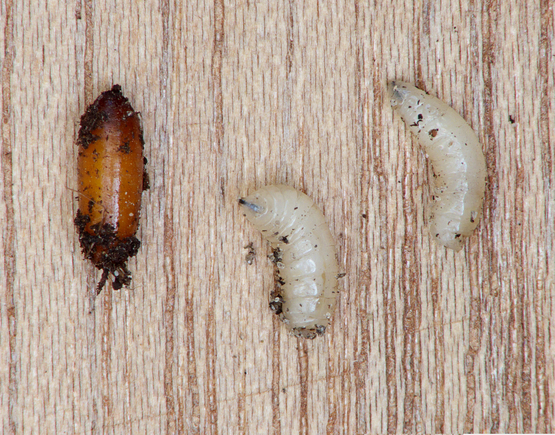 Delia radicum